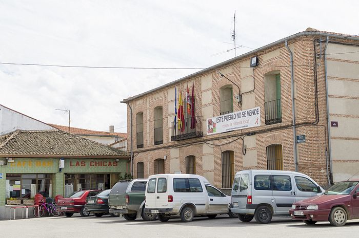 Ayuntamiento